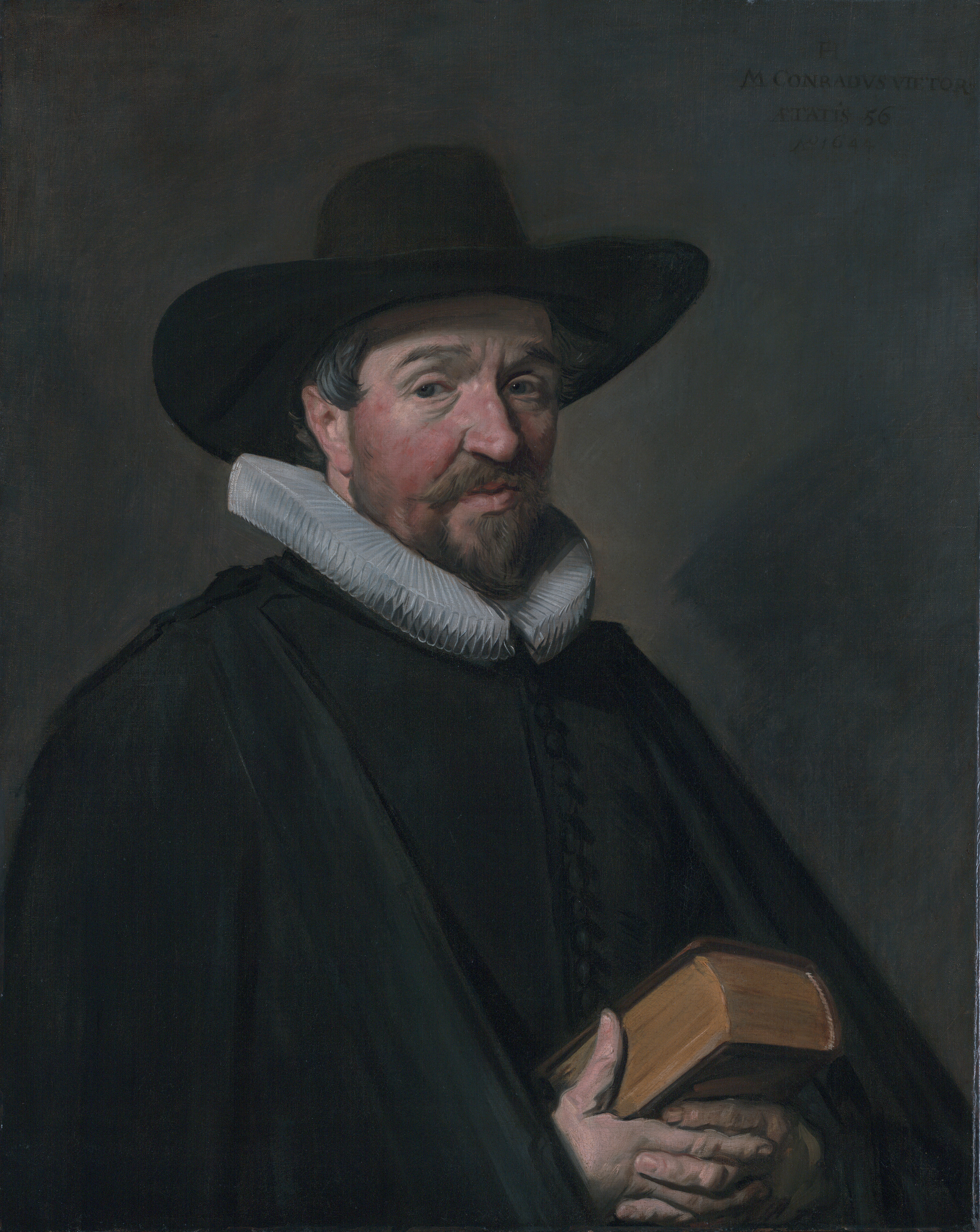 Conradus Viëtor oil on canvas 82.6 x 66 cm signed t.r.: FH / M CONRADVS VIETOR / ÆTATIS 56 / Ao 1644